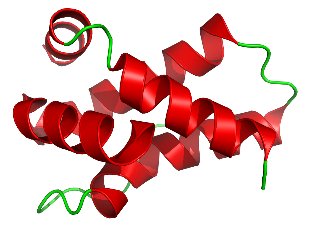 Ribbon diagram of mabinlin II. Colored by secondary structure.Created using PyMOL ( and GIMP.